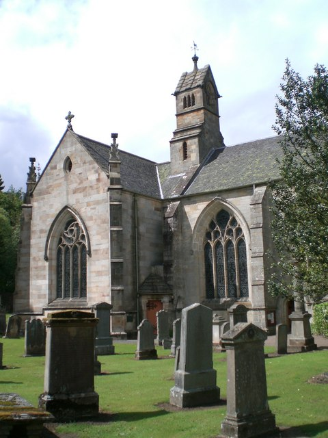 The Kirk of Calder, Midcalder